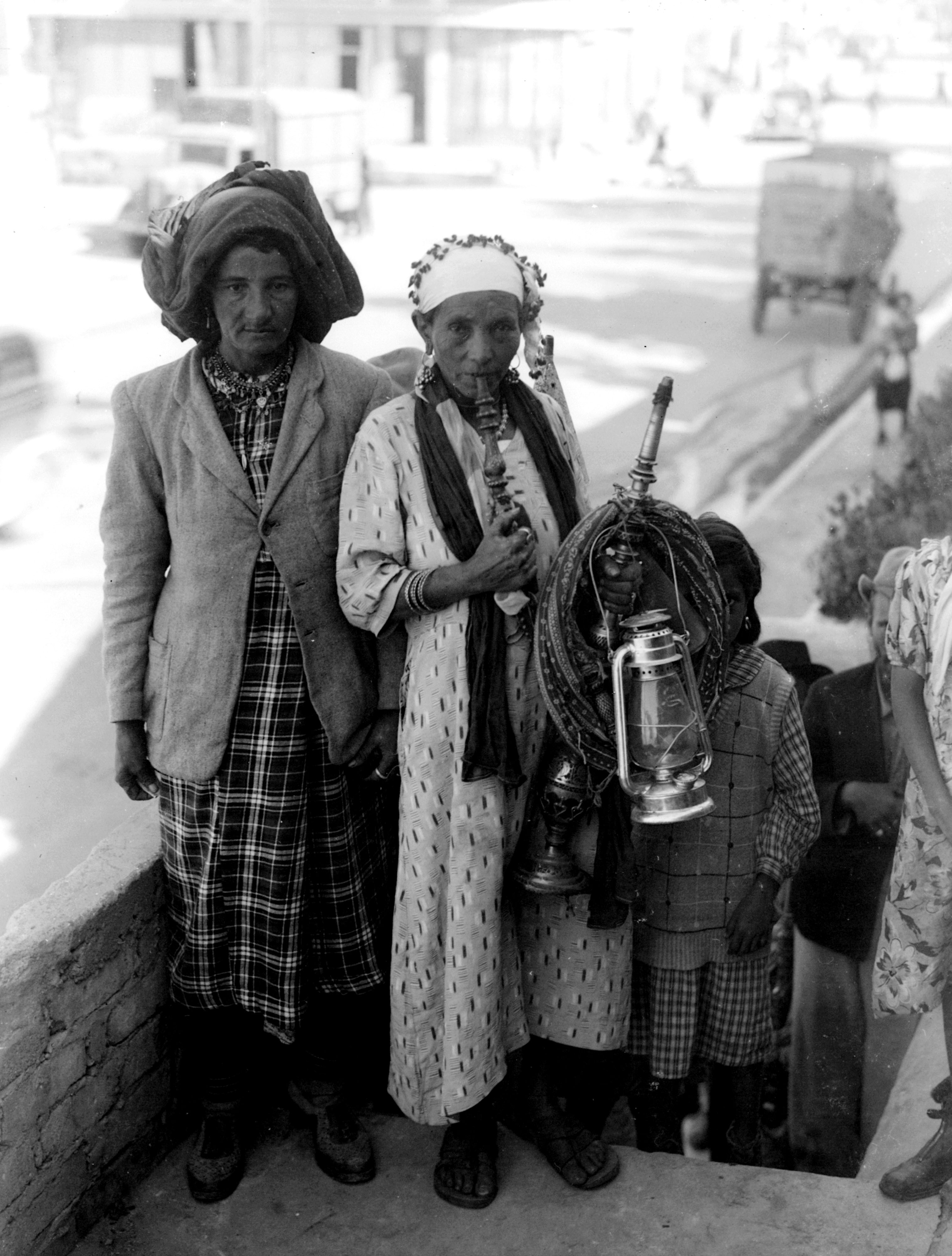 A FAMILY OF NEW IMMIGRANTS FROM ADEN IN HAIFA. עןלים חדשים מתימן בחיפה.